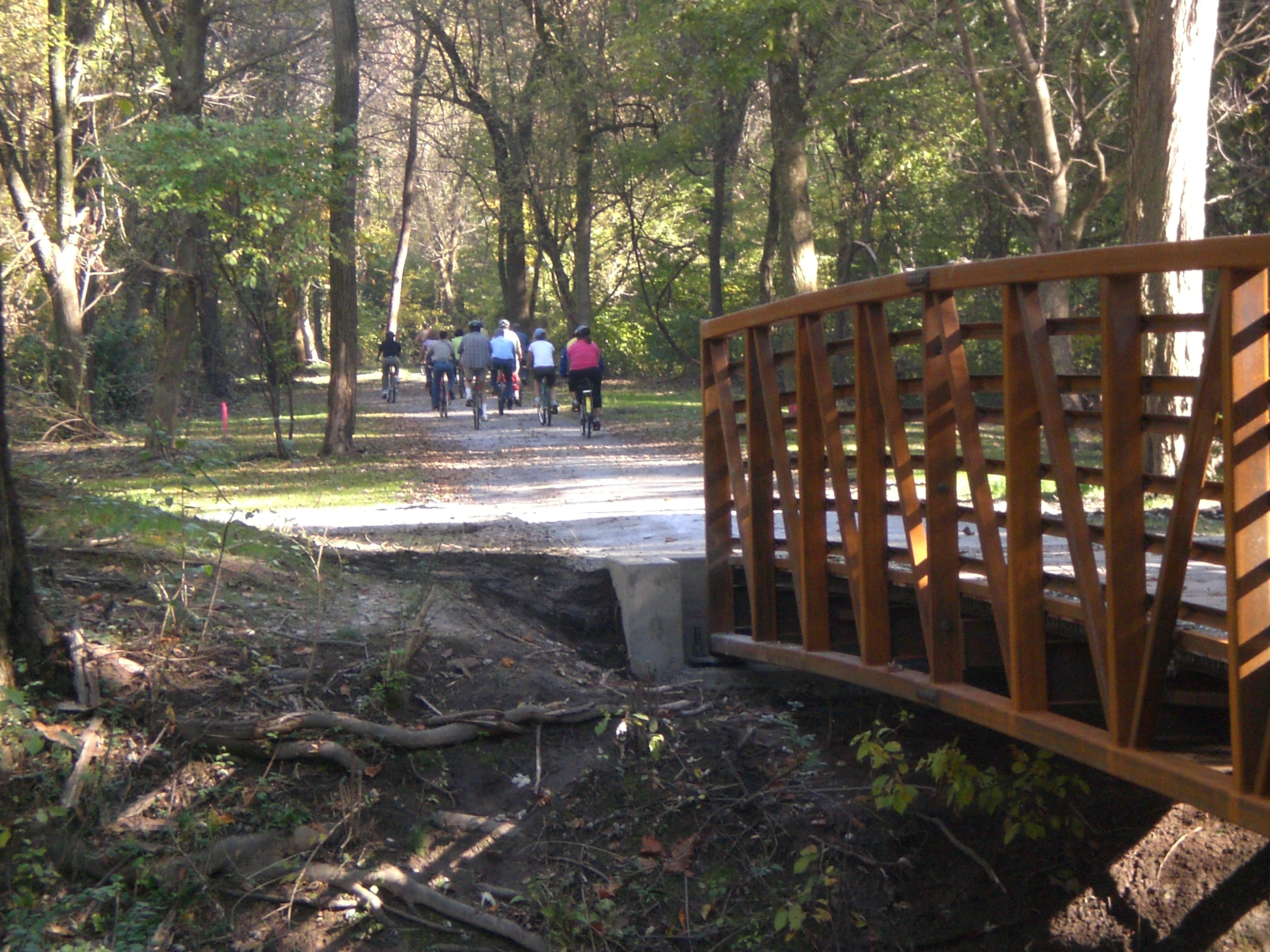 A group of bikers crosses over the bridge